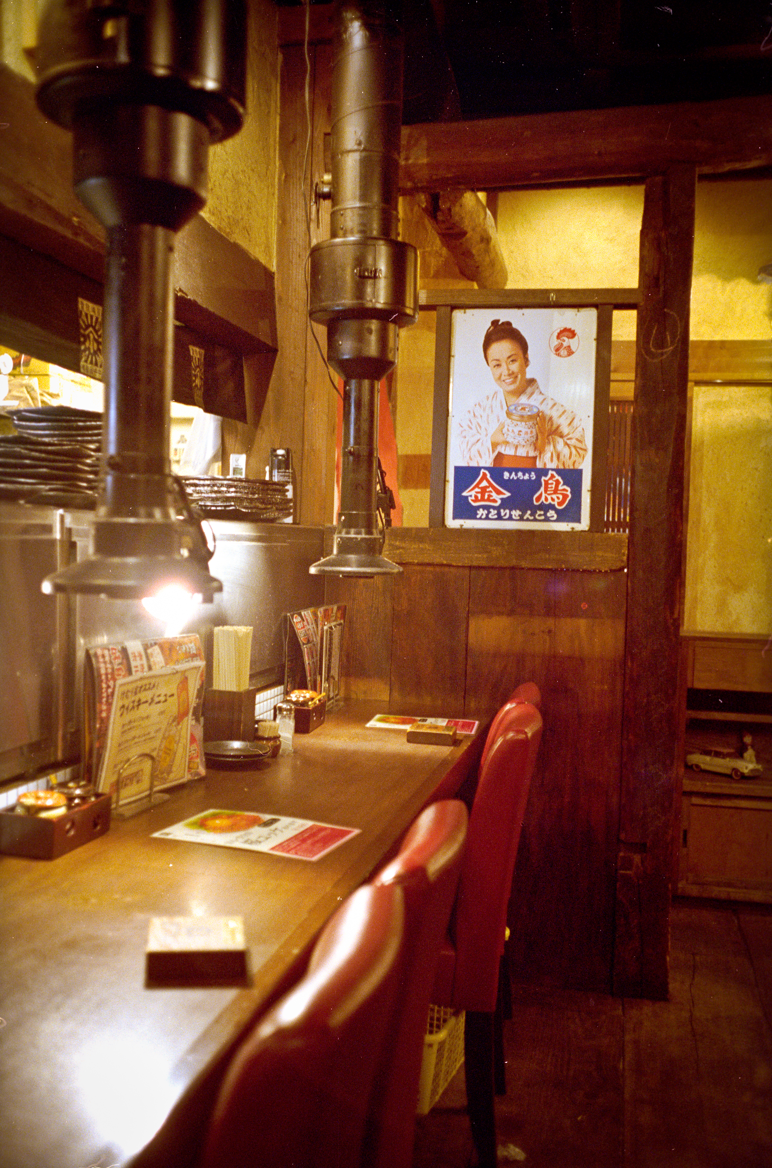 Leica M3 + 35mm summaron "Japanese-style pub" blog(JP):PhoTones